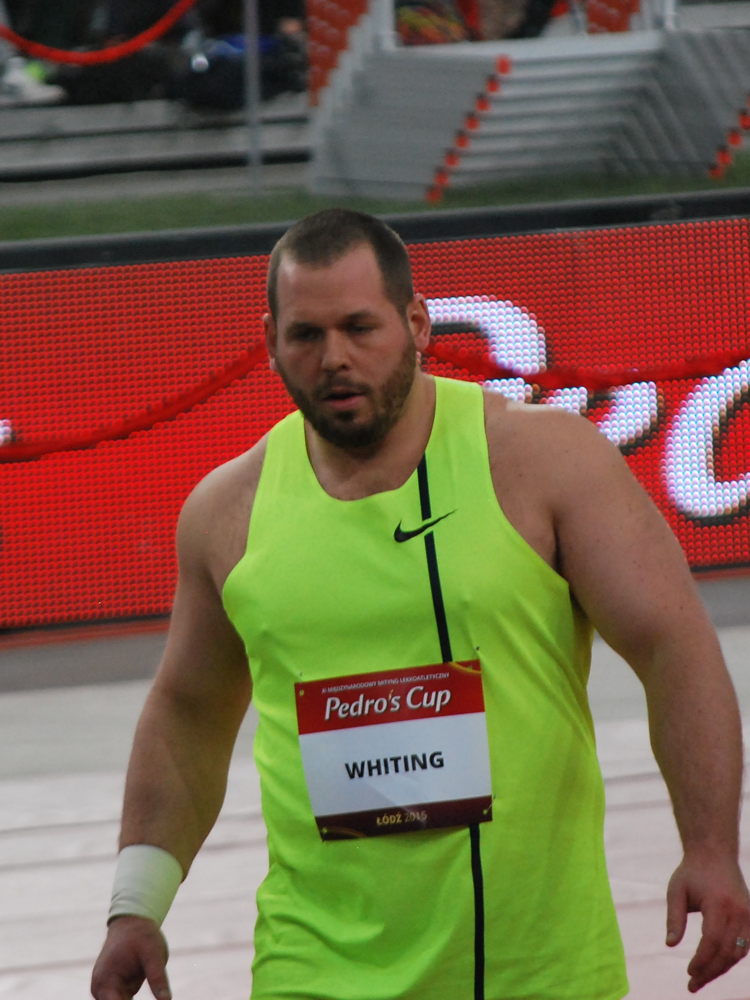 Pedros Cup 2015 Łódź, Ryan Whiting, shot putter from the USA